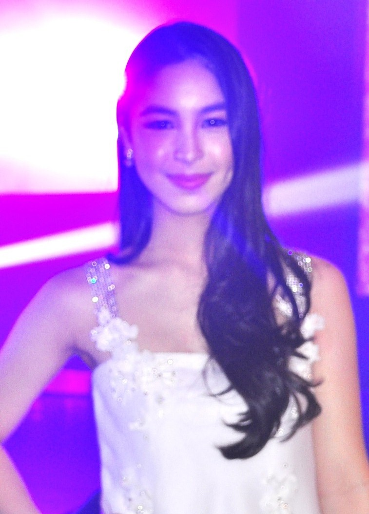 Philippine actress Julia Barretto attending the 2013 Candy Style Awards on May 10, 2013.